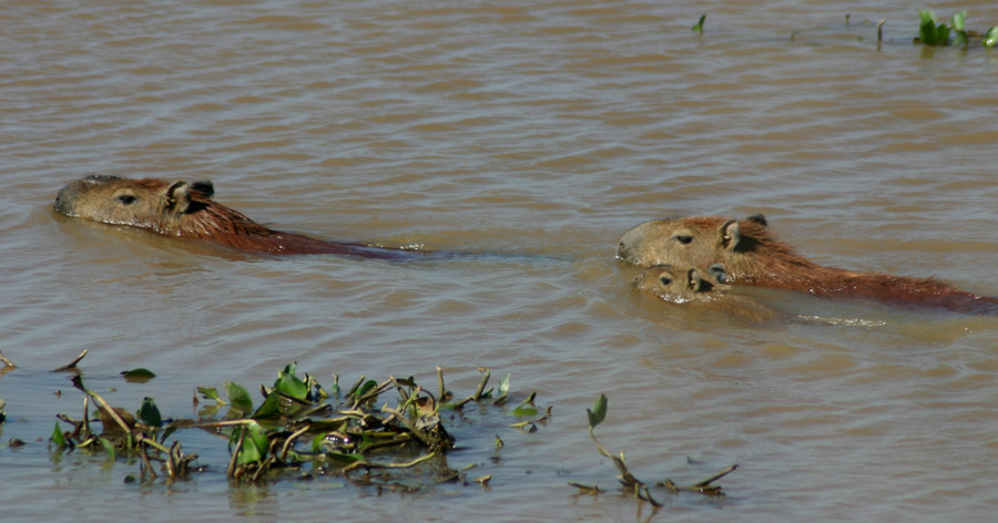 A male capybara (left), female and baby swimming in a slough at Hato La Fe in the Los Llanos region of Venezuela. (February 2007)